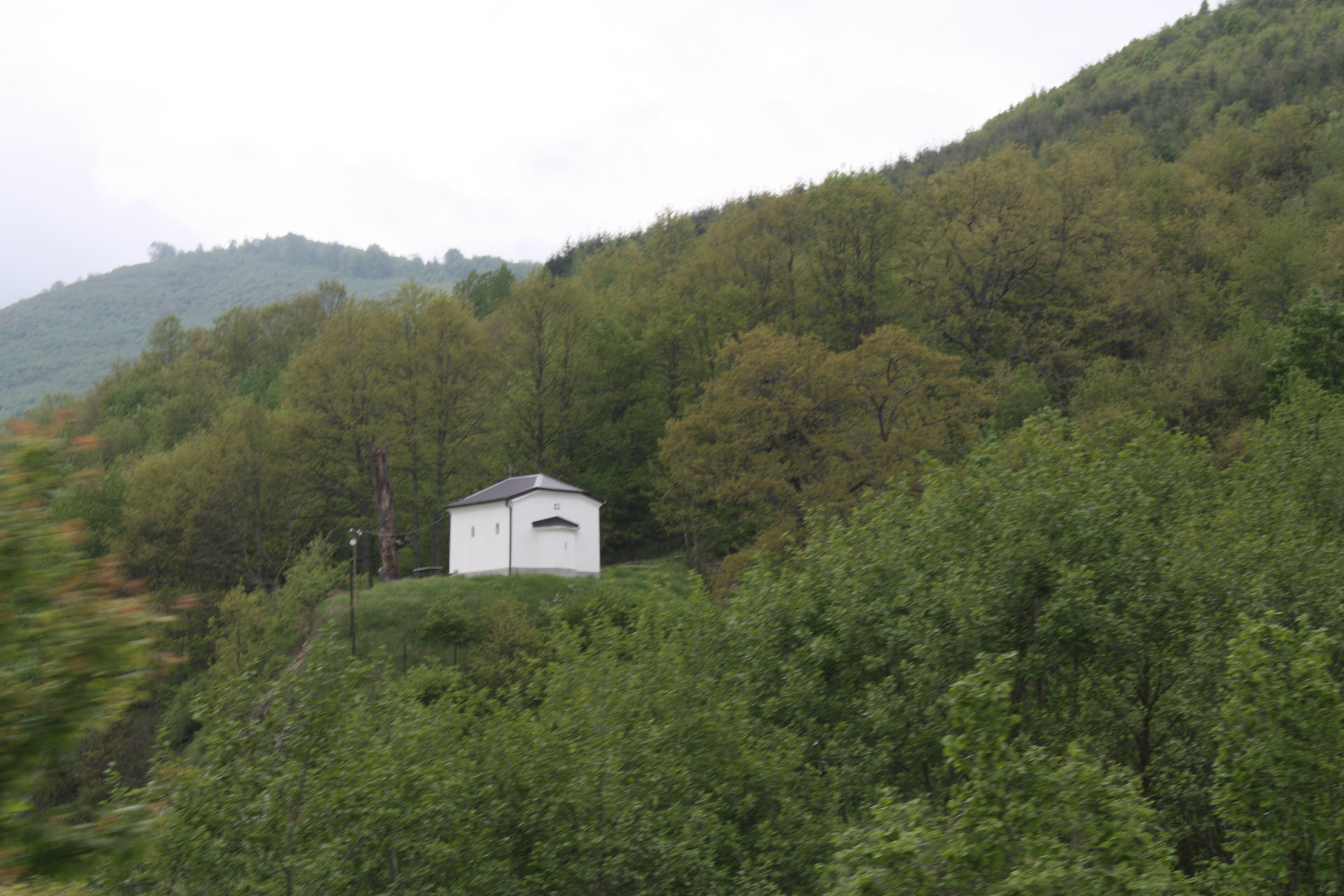 St.Petka church in Tajmište, Macedonia